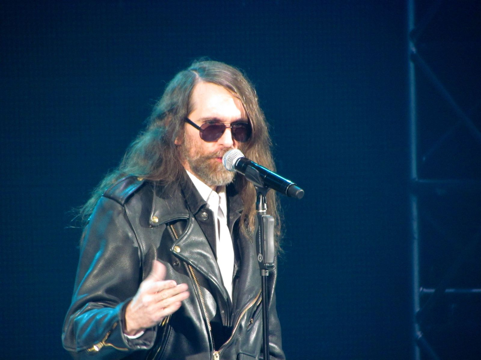 Paul O'Neill. Taken at TSO's concert in London, March 28th 2011.